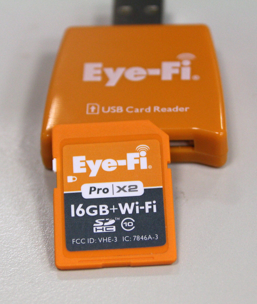 Eye-Fi Pro X2 16GB Wireless SDHC Card